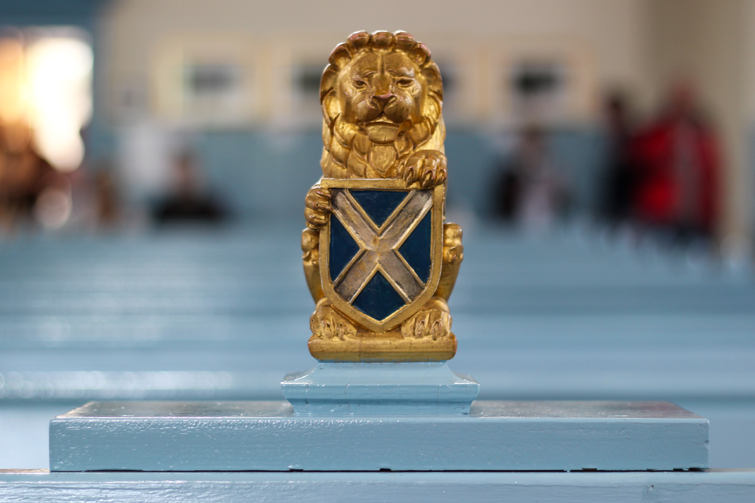 The Castle Pew inside the Canongate Kirk in Edinburgh's Old Town, Scotland.